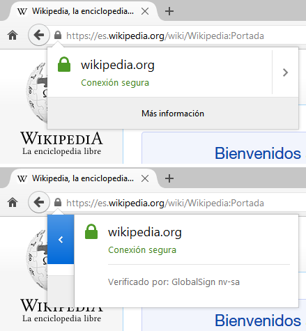 Spanish Wikipedia's main page SSL identity info box in Firefox v41.0.2